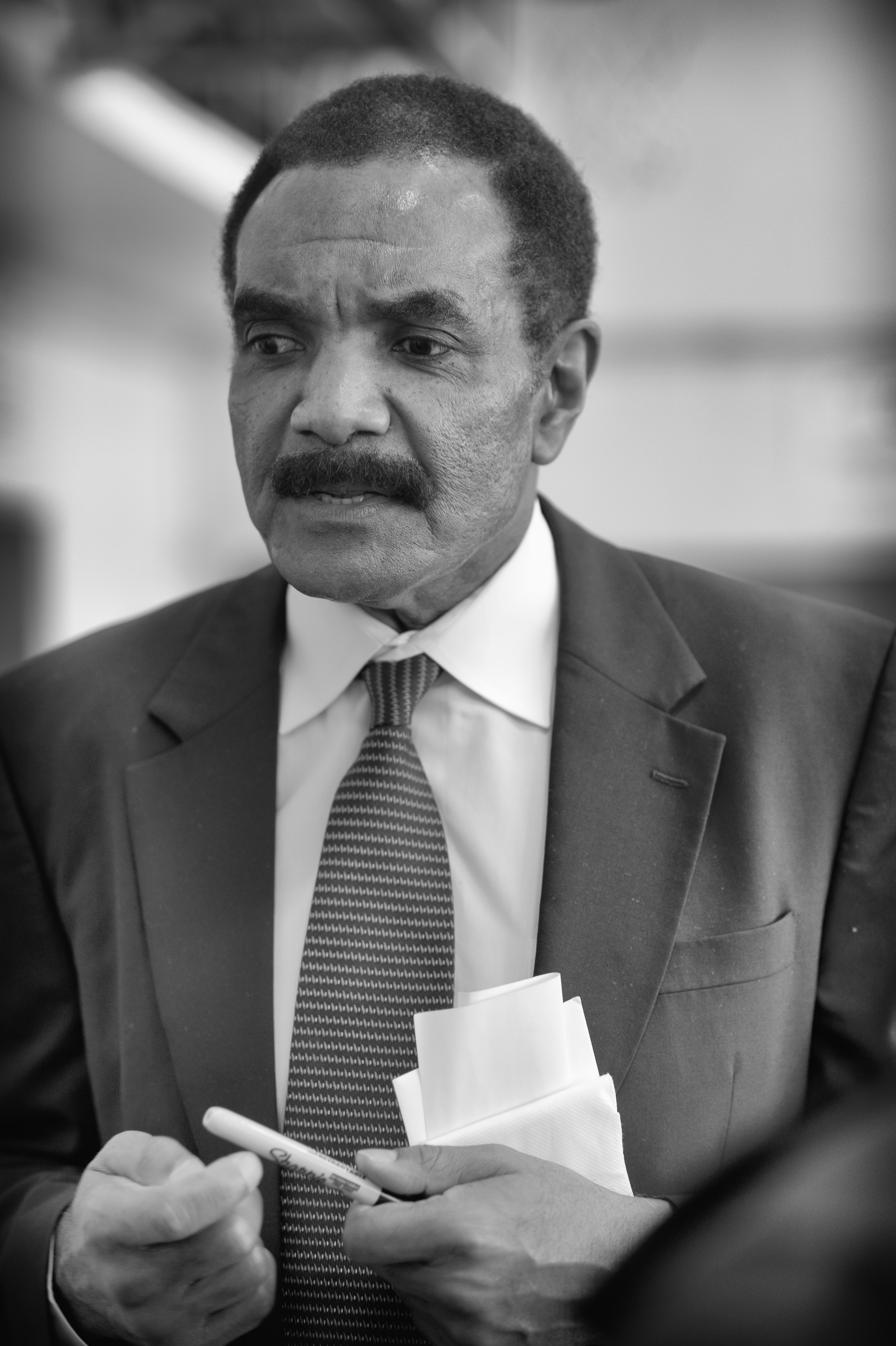 Calvin Hill speaks to students at the Riverdale Country School